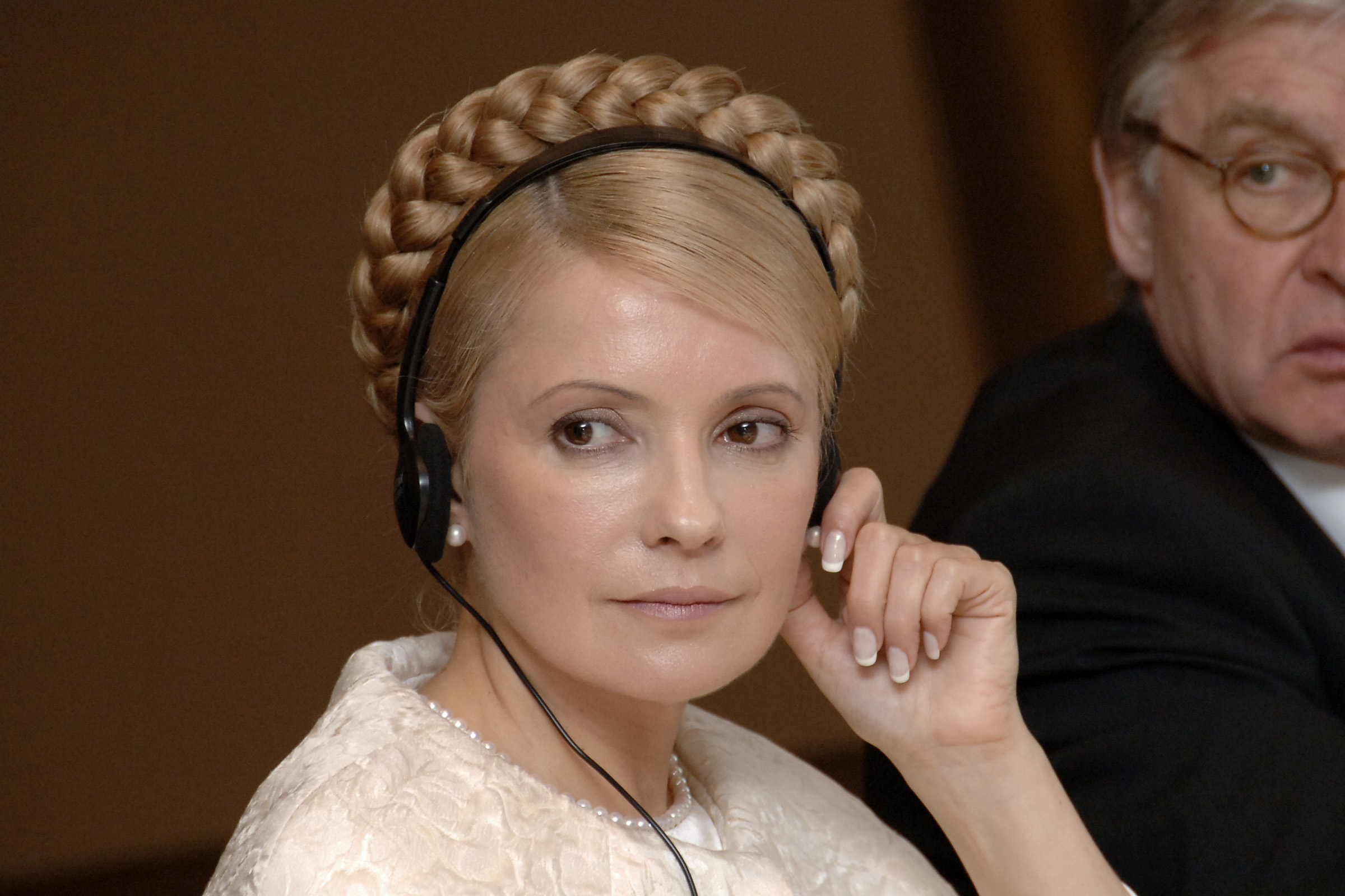 EPP Summit Lisbone 18 October 2007